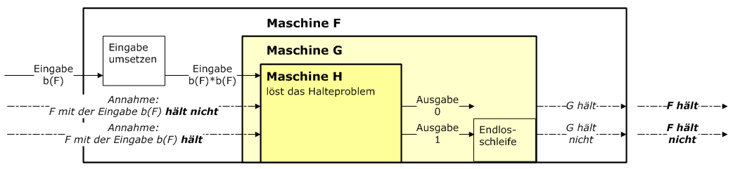 Graphical proof sketch: the Halting problem is not Turing-decidable